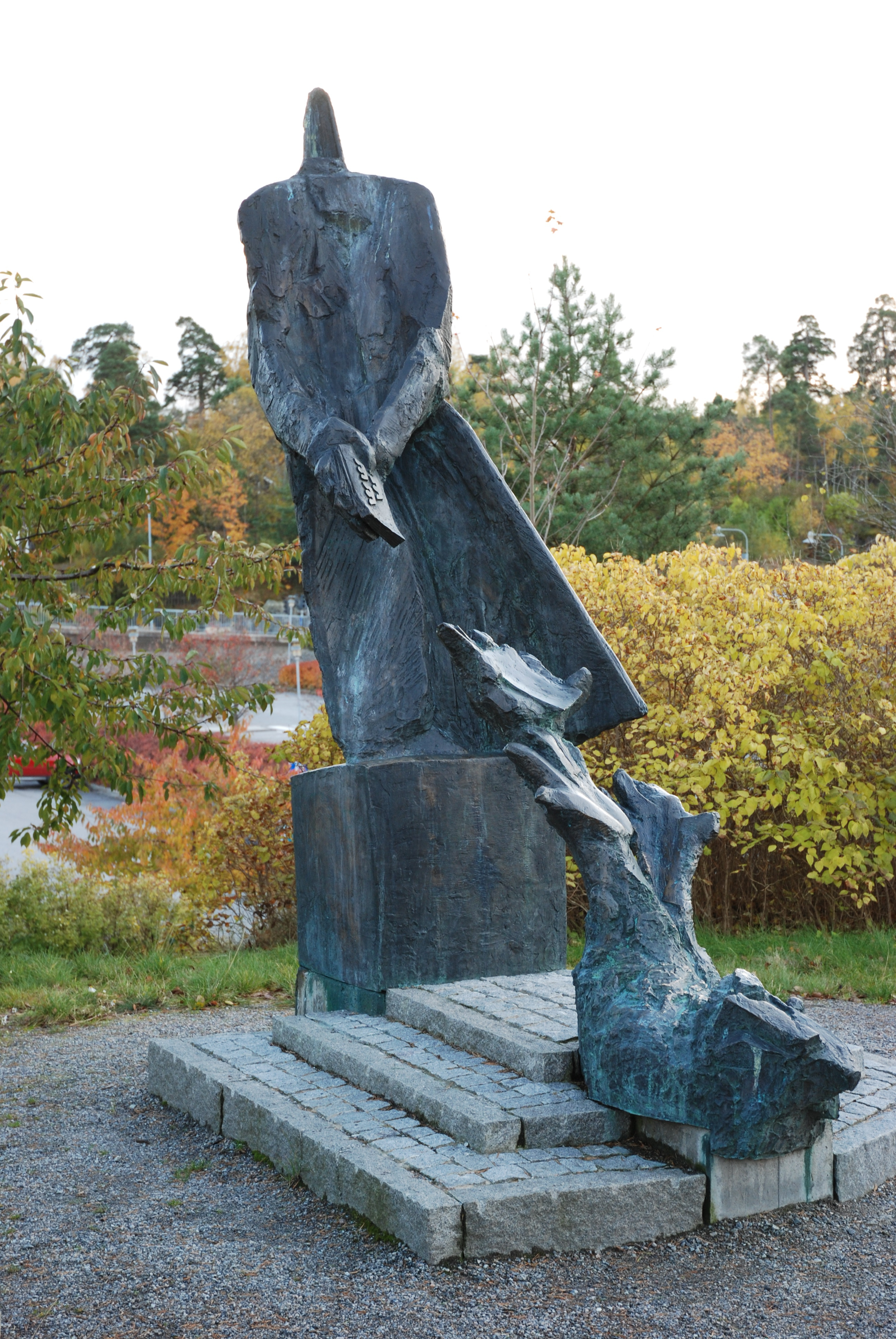 Willy Gordon´s Raoul Wallenbergs gärning 1999 (The accomplishment of Raoul Wallenberg), Stadshusparken i Lidingö (the Lidingö Town Hall Park), Sweden